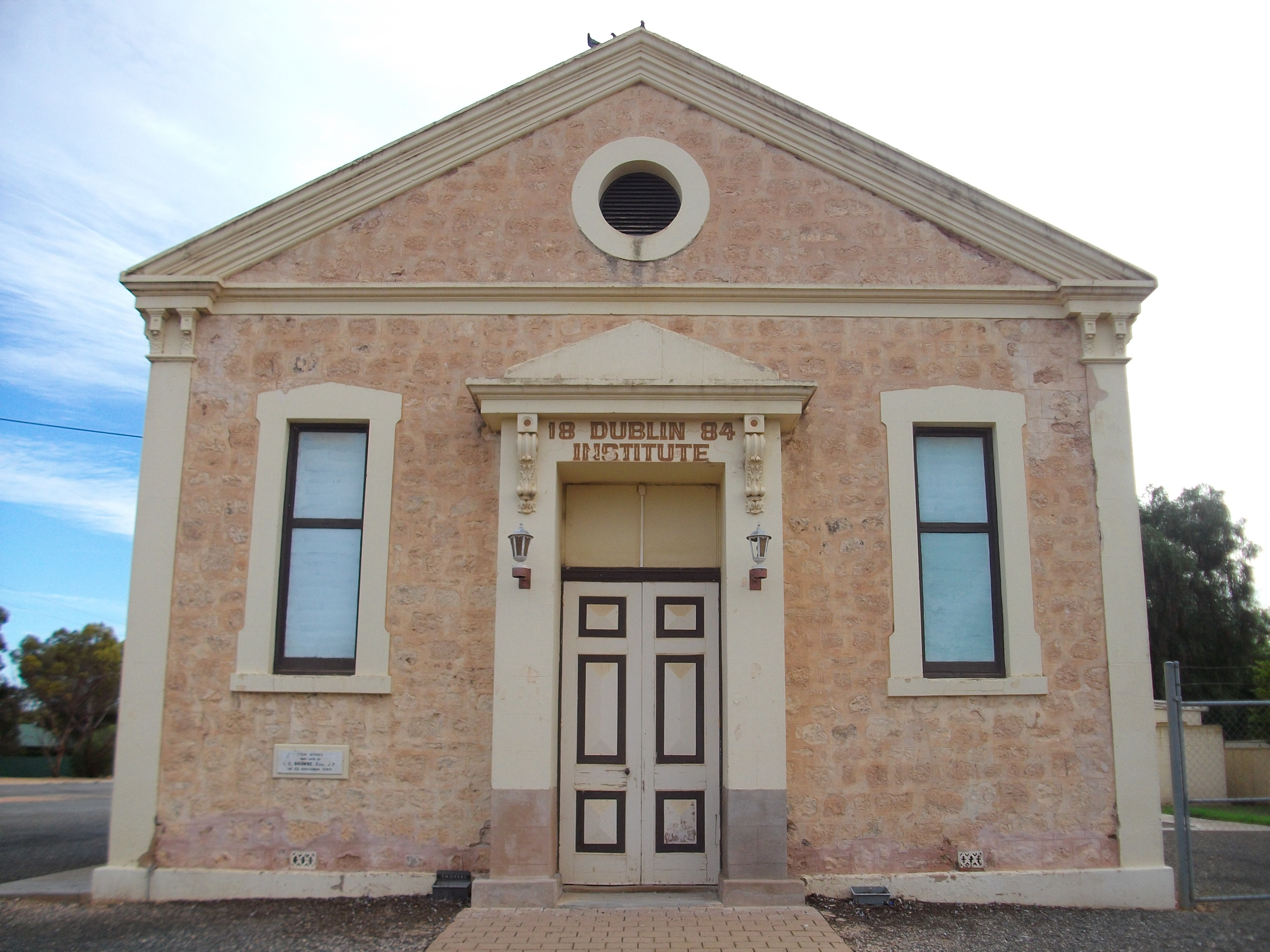 Dublin Town Hall or Institure